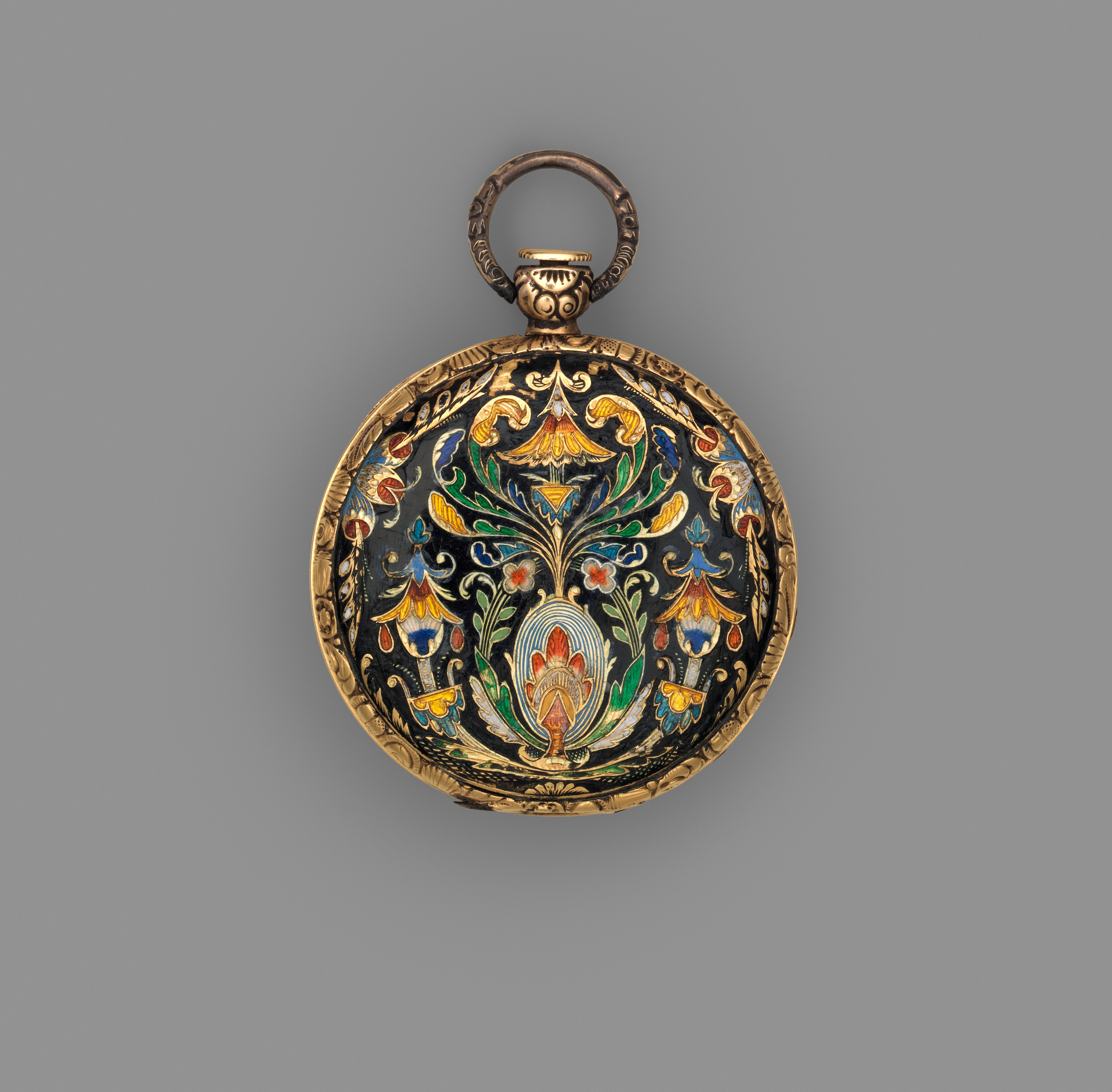 Swiss, Geneva; Watch; Horology